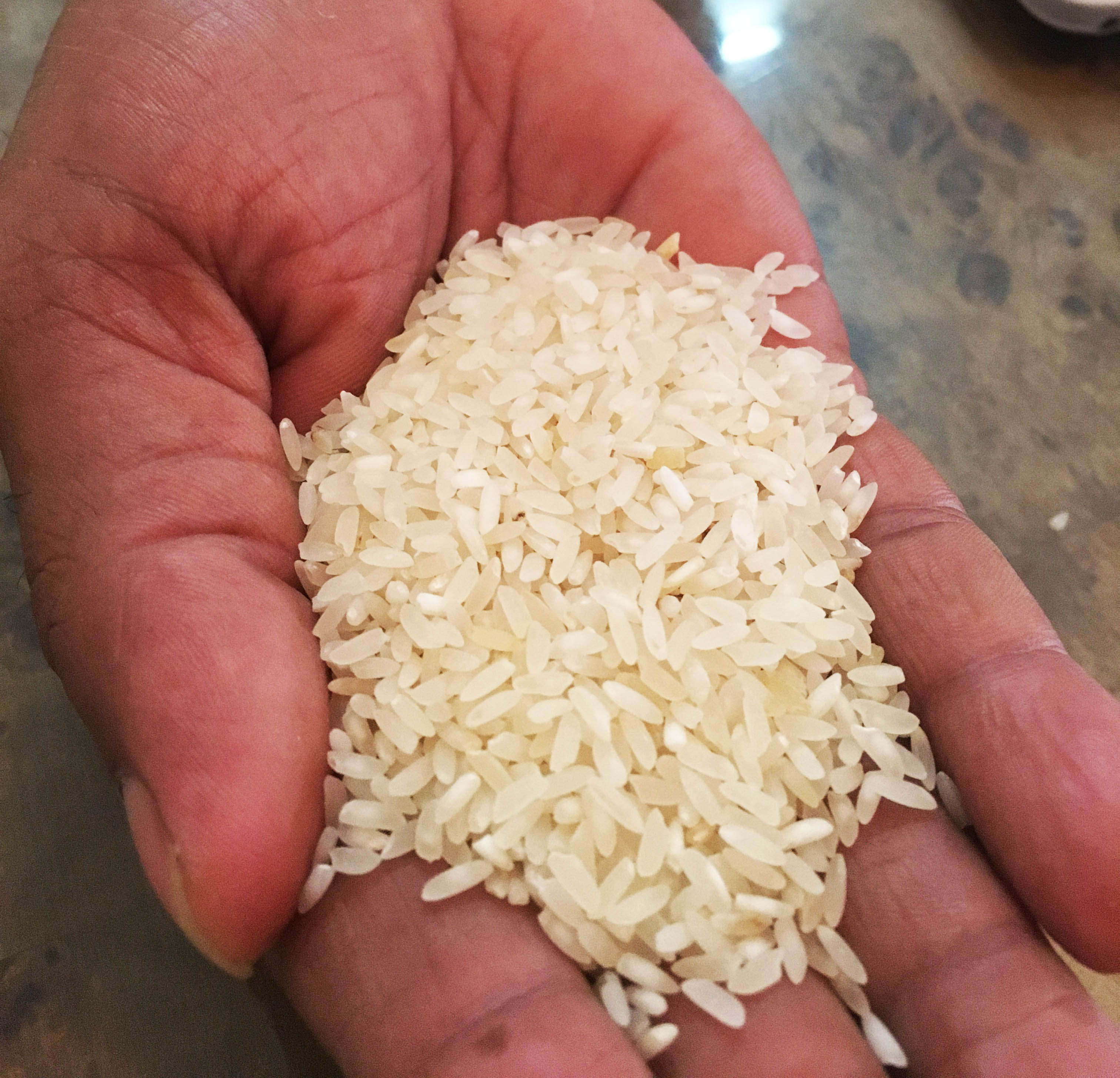 the short-medium sized aromatic rice grains called the Kalanamak rice